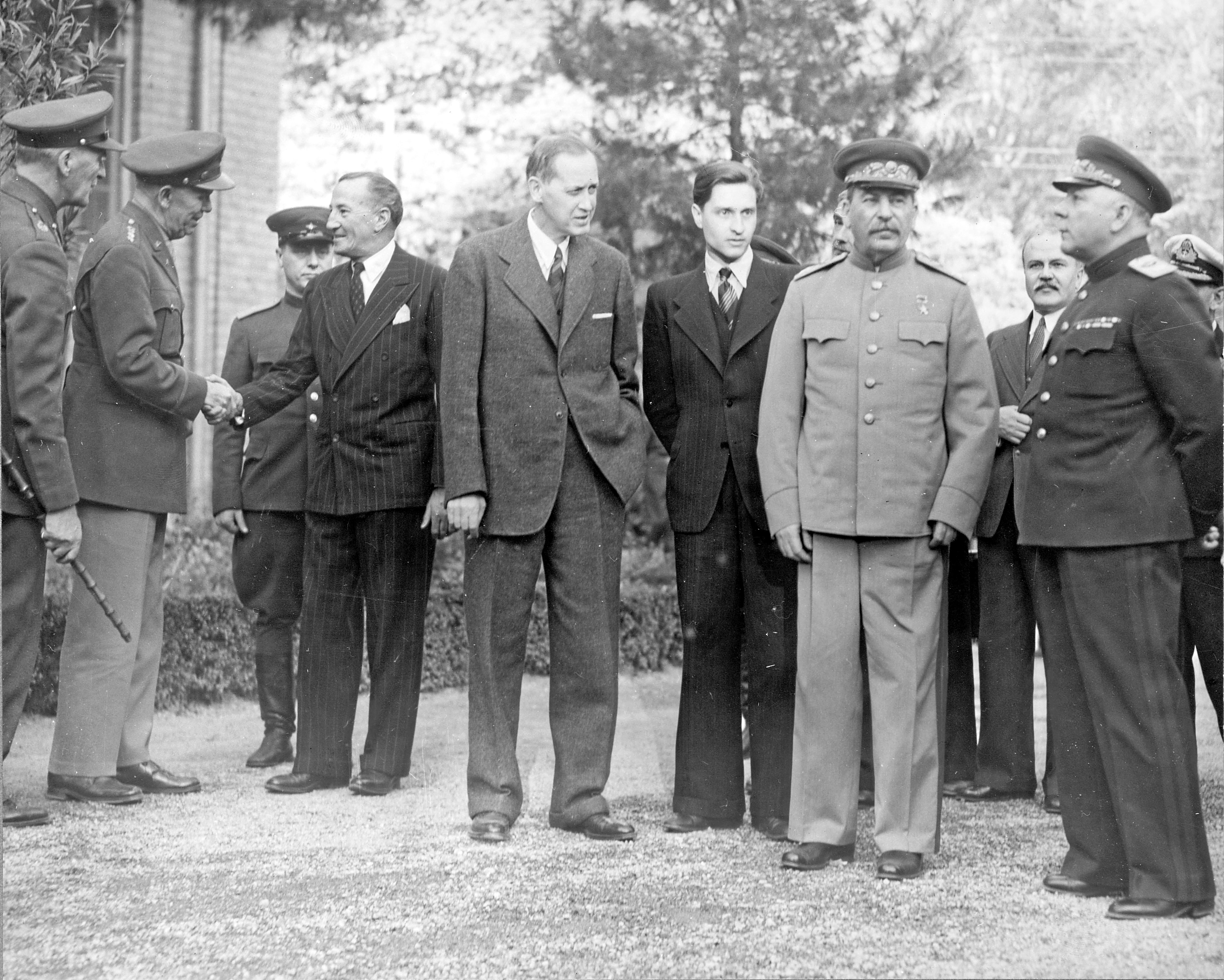 Tehran Conference photo of (R-L) Marshal Voroshilov, Josef Stalin, interpreter, Harry Hopkins, General Sir Archibald Clark Keer, and George C. Marshall. Photo taken in Tehran, Iran